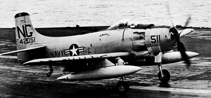 A U.S. Navy Douglas AD-7 Skyraider (BuNo 142051) from Attack Squadron VA-95 Skyknights on the aircraft carrier USS Ranger (CVA-61). VA-95 was assigned to Carrier Air Group 9 (CVG-9) aboard the Ranger for a deployment to the Western Pacific from 6 February to 30 August 1960. 142051 was later in service with VA-115 Arabs, CVW-11, and crashed into the Gulf of Tonkin after launching from USS Kitty Hawk (CVA-63) on 19 May 1966. The pilot was rescued.